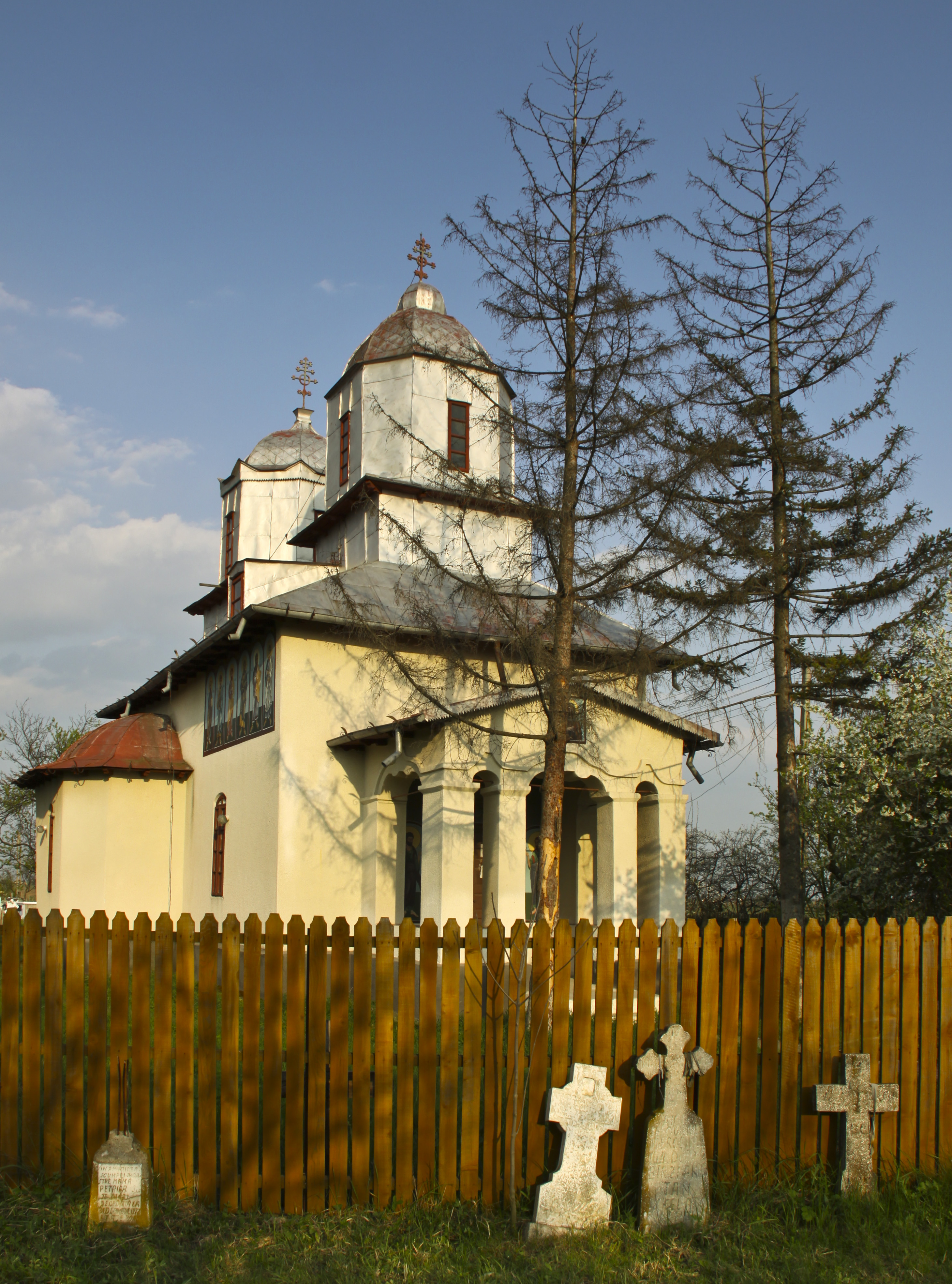 Optăşani, Olt county, Romania: the wooden church.